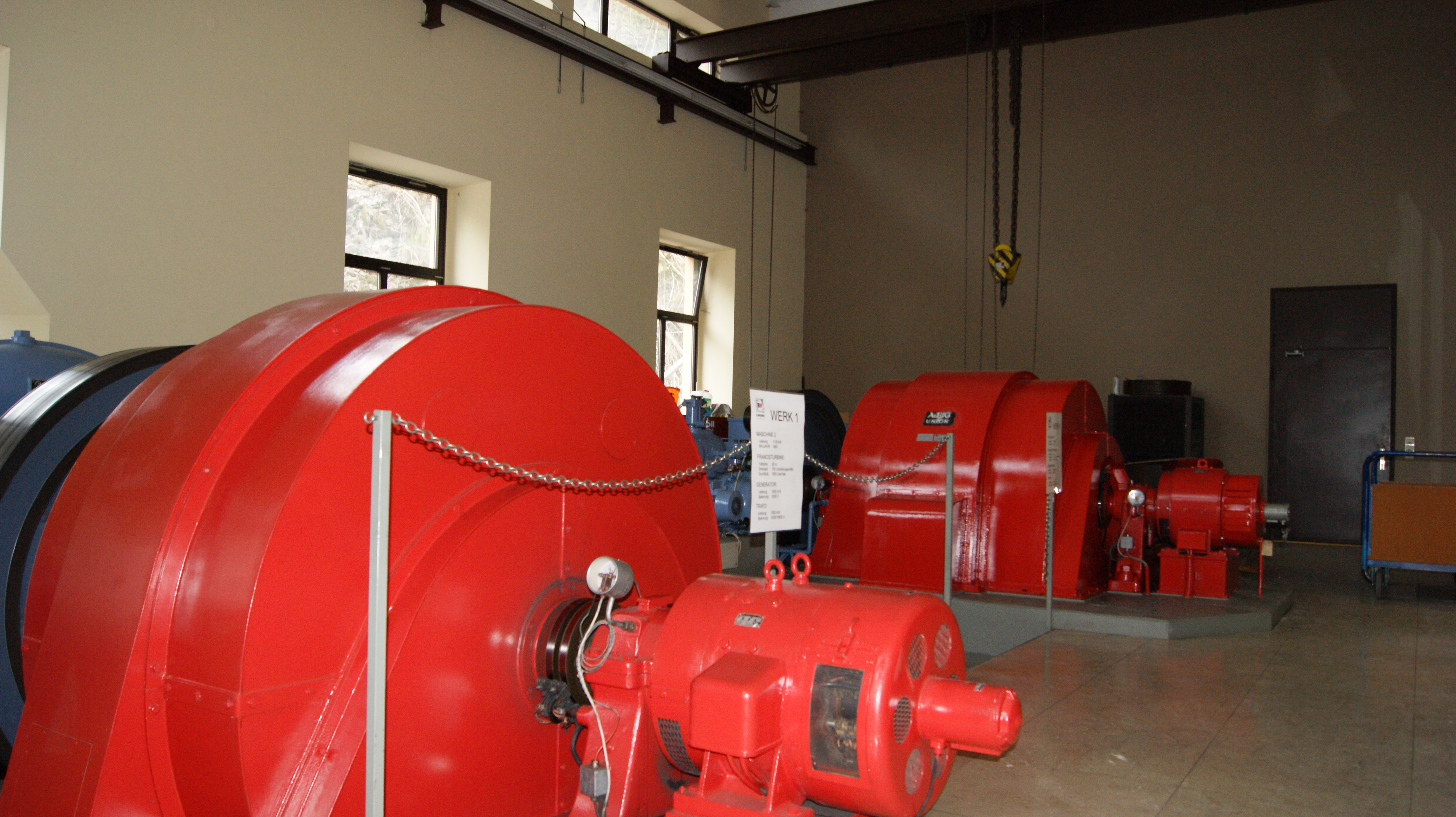 Turbine and generator (Machine 1 and 2) at Plant 1 of the E-Werke Frastanz in the Saminatal in Frastanz, Vorarlberg, Austria.